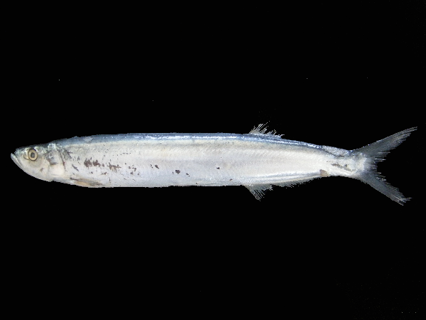 Chirocentrus dorab collected in Kampuan market, Suksamran, Ranong , southern Thailand